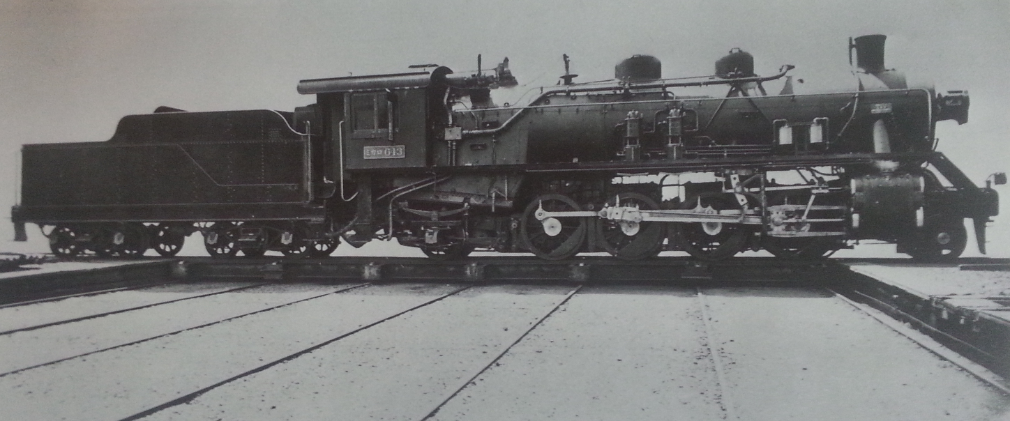 Builder's photo of Manchukuo National Railway Mikaro643.